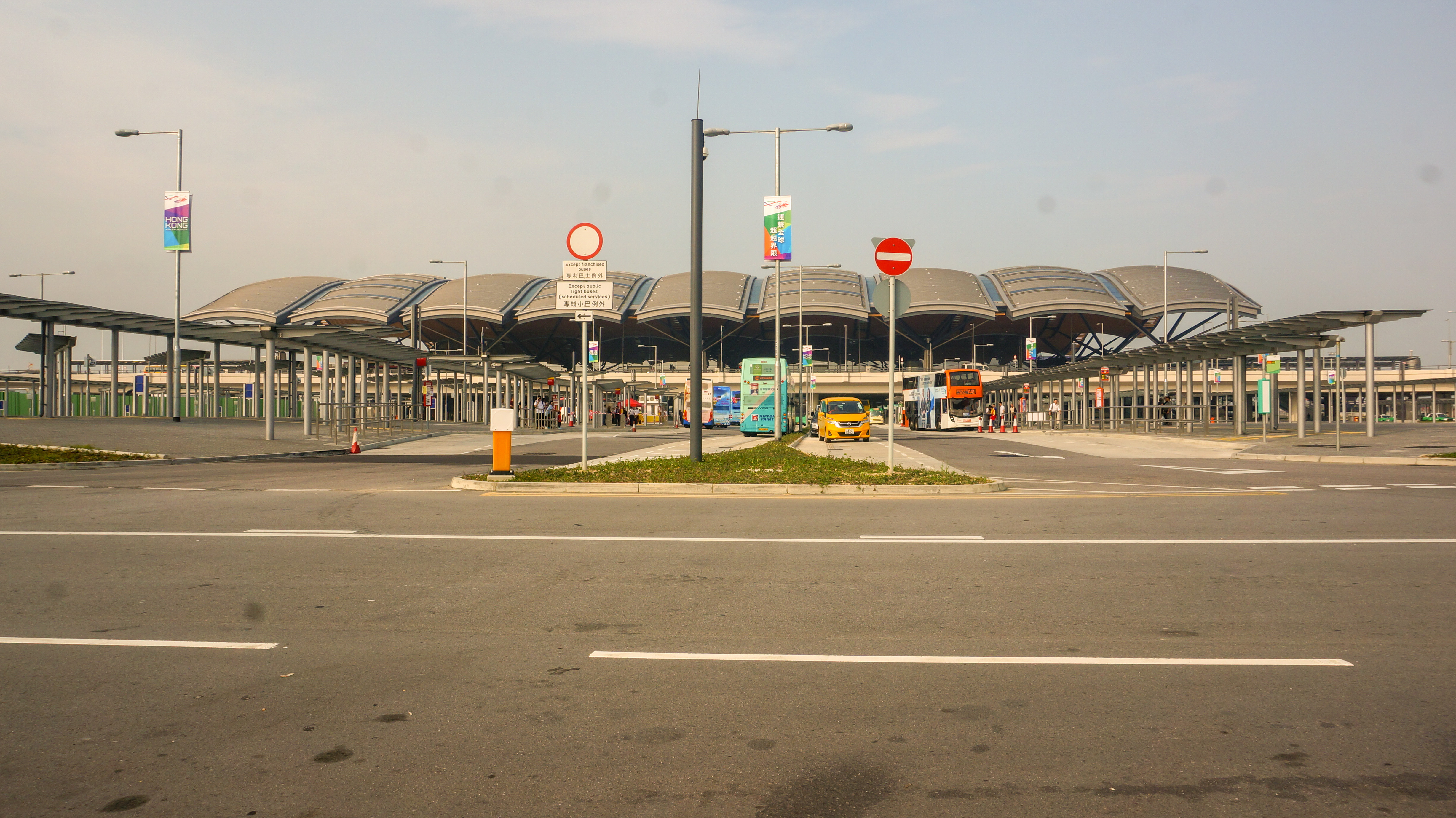 Hong Kong-Zhuhai-Macao Bridge Hong Kong Port Public Transport Interchange